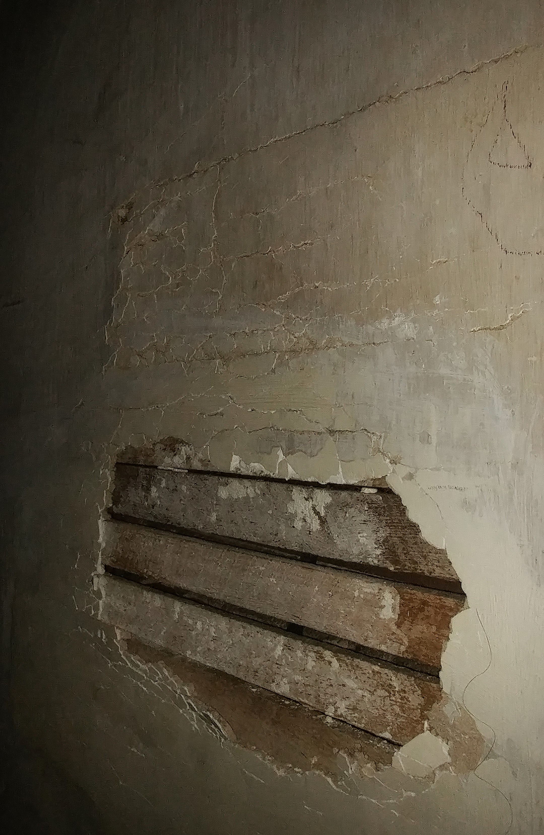 Lath with failed and failing sections found in a Pennsylvanian home.